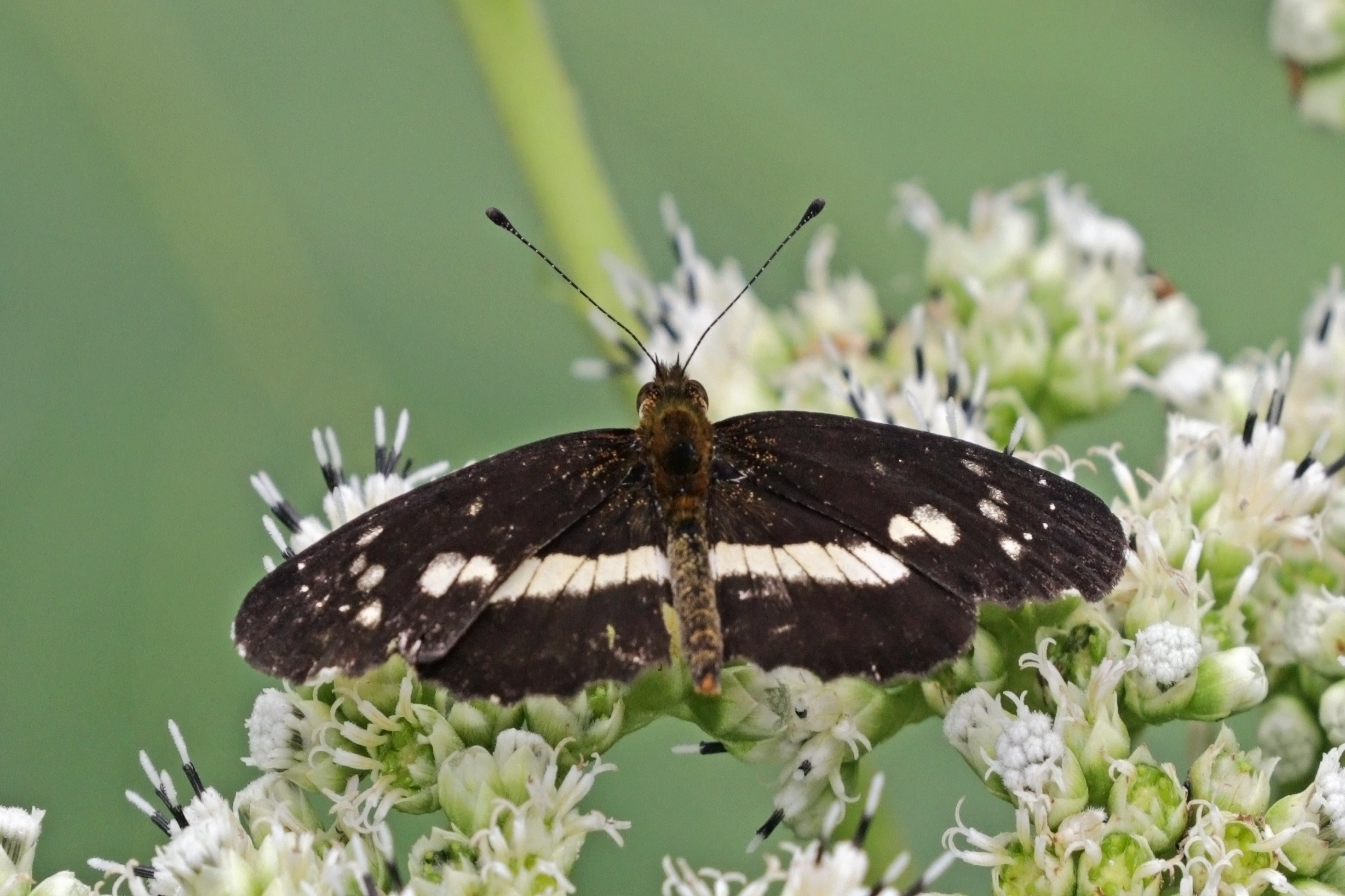 White-dotted crescent (Castilia ofella), Anton Valley, Panama